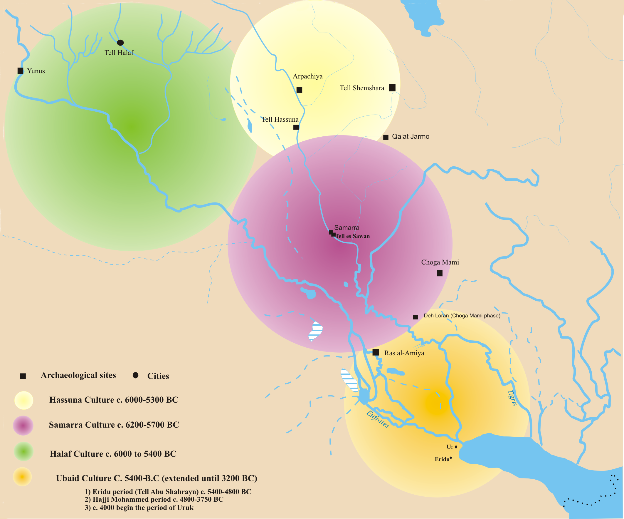 Mesopotamia_6000-4500 BC